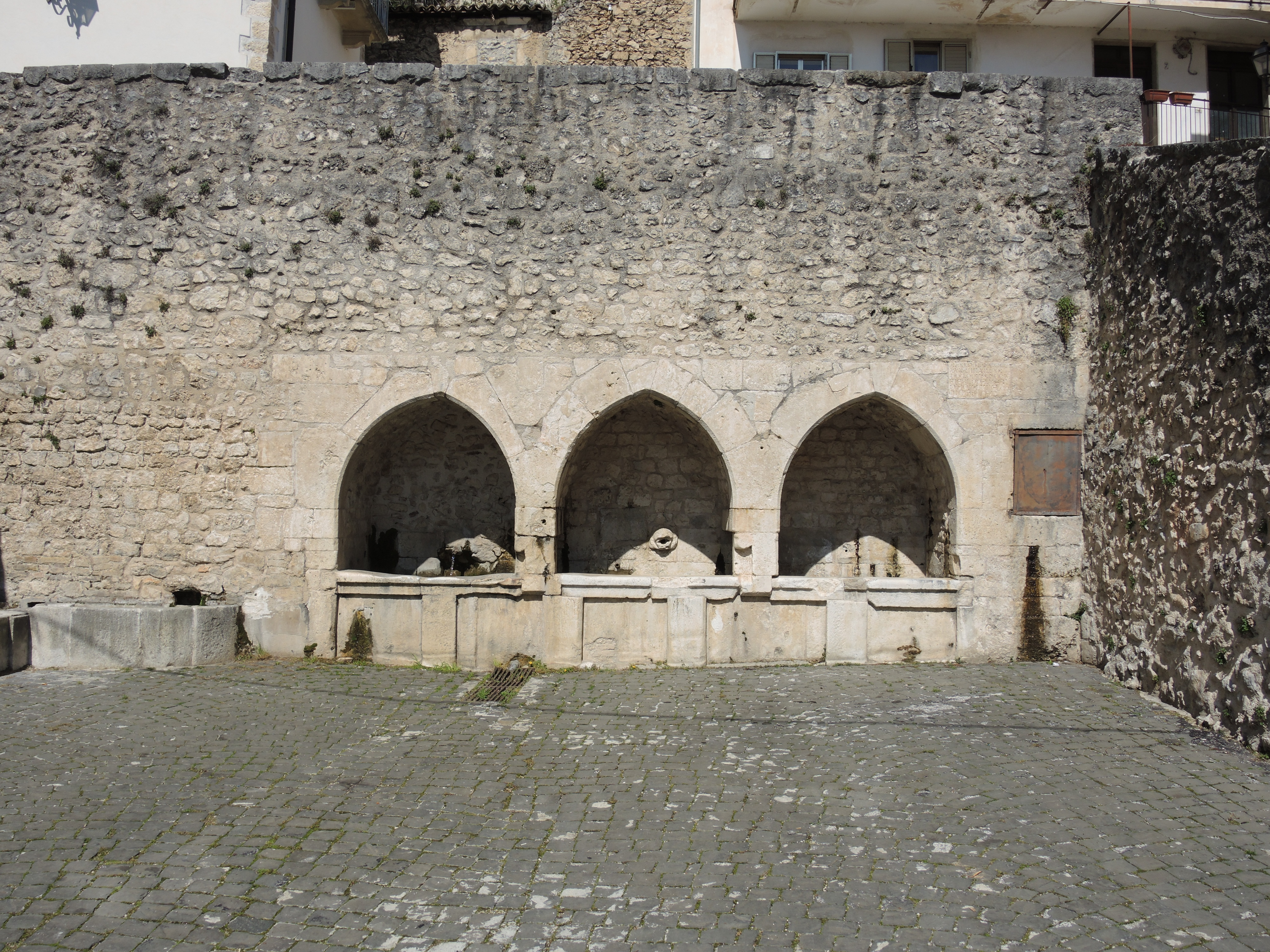 Gagliano Aterno: Fontana